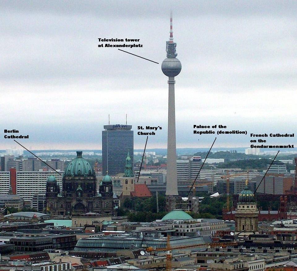 Panoramic view from Kollhoff-Tower: Berlin Cathedral, St. Mary's Church, Television Tower, Palace of the Republic, French Cathedral